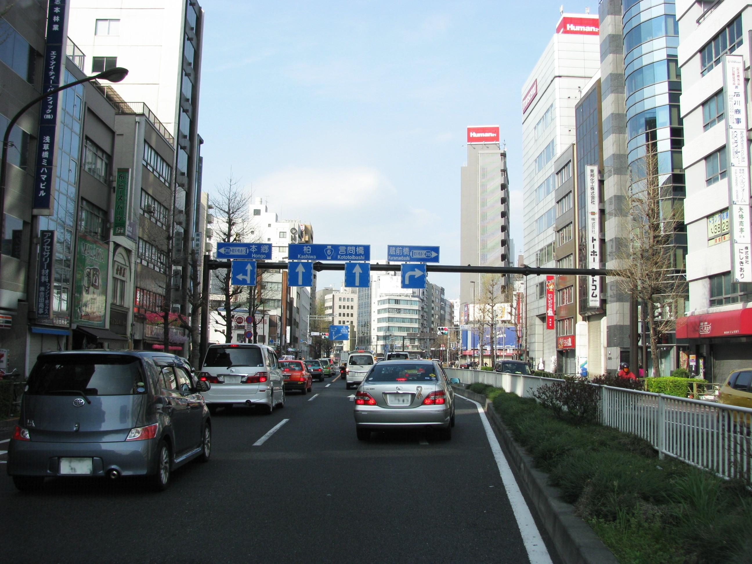 The Japan National Route 6. This located is Kuramae in Taitō, Tokyo, Japan.